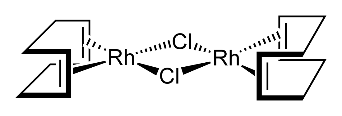 Skeletal formula of the cyclooctadiene rhodium chloride dimer